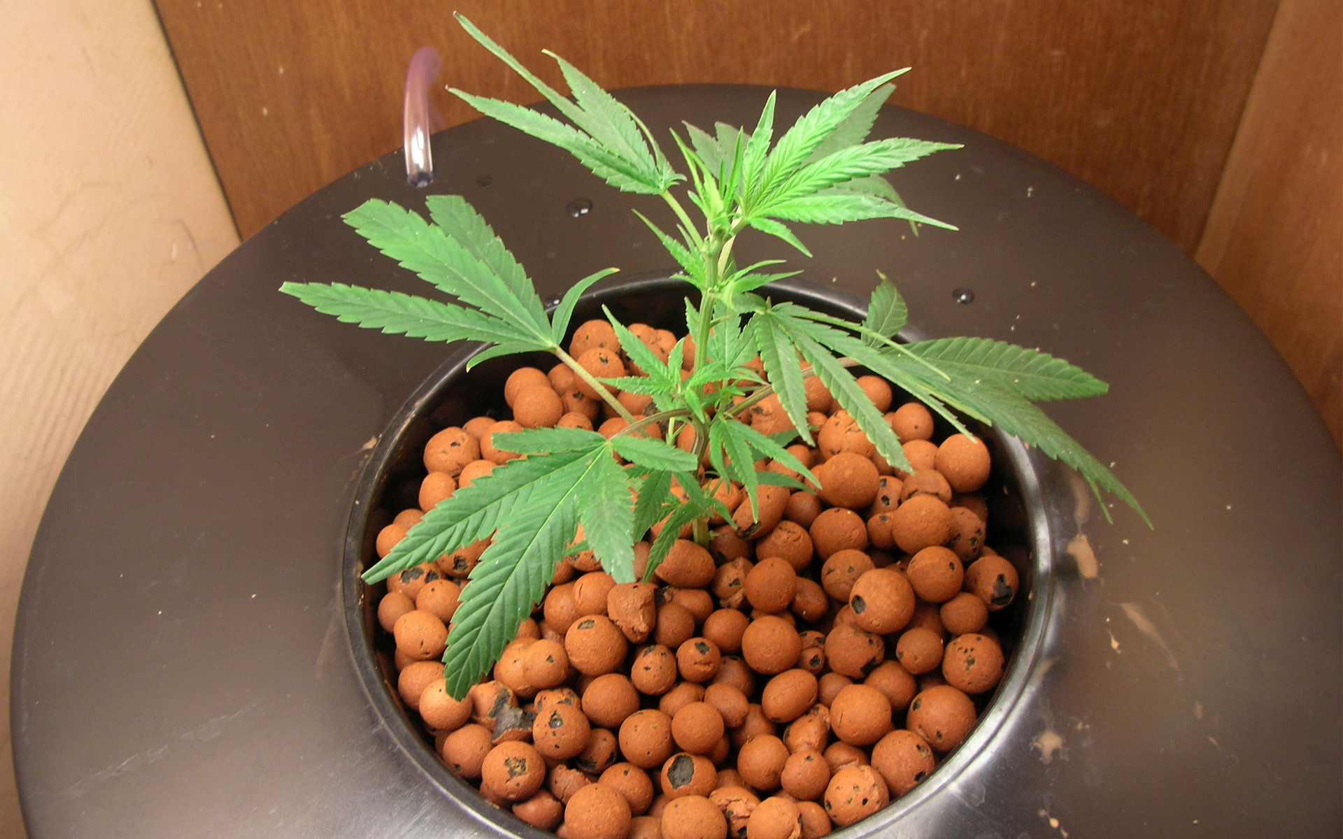 Cannabis